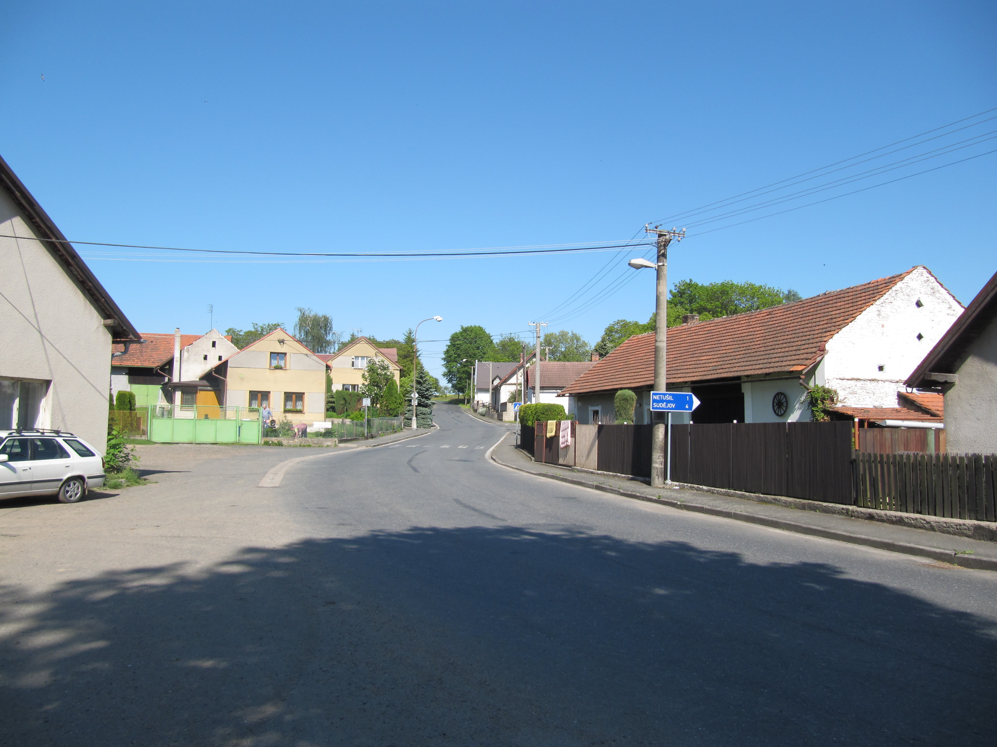 Rašovice in Kutná Hora District, Czech Republic, part Mančice. Road towards Kutná Hora.